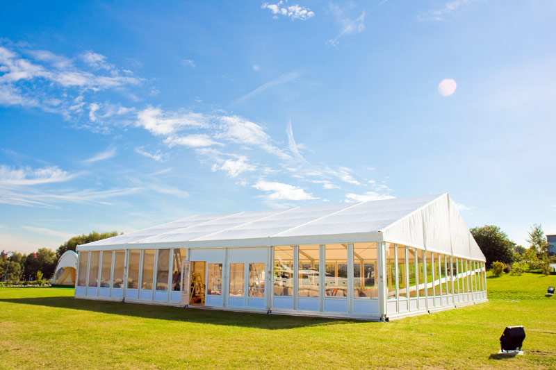 Mobile Pavilion